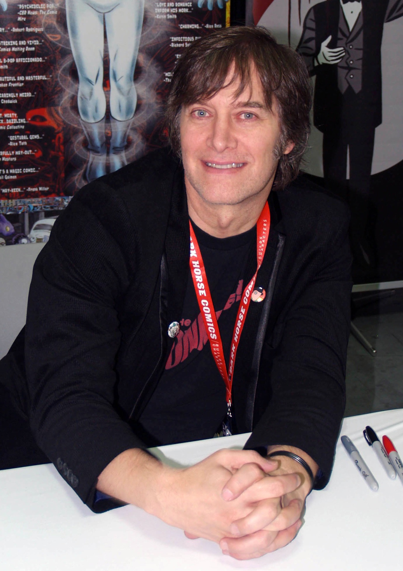 Comics writer/artist Mike Allred on Saturday, June 14, 2014, Day 1 of Special Edition NYC, a comic book convention at the Jacob K. Javits Convention Center in Manhattan. This photo was created by Luigi Novi. It is not in the public domain, and use of this file outside of the licensing terms is a copyright violation.